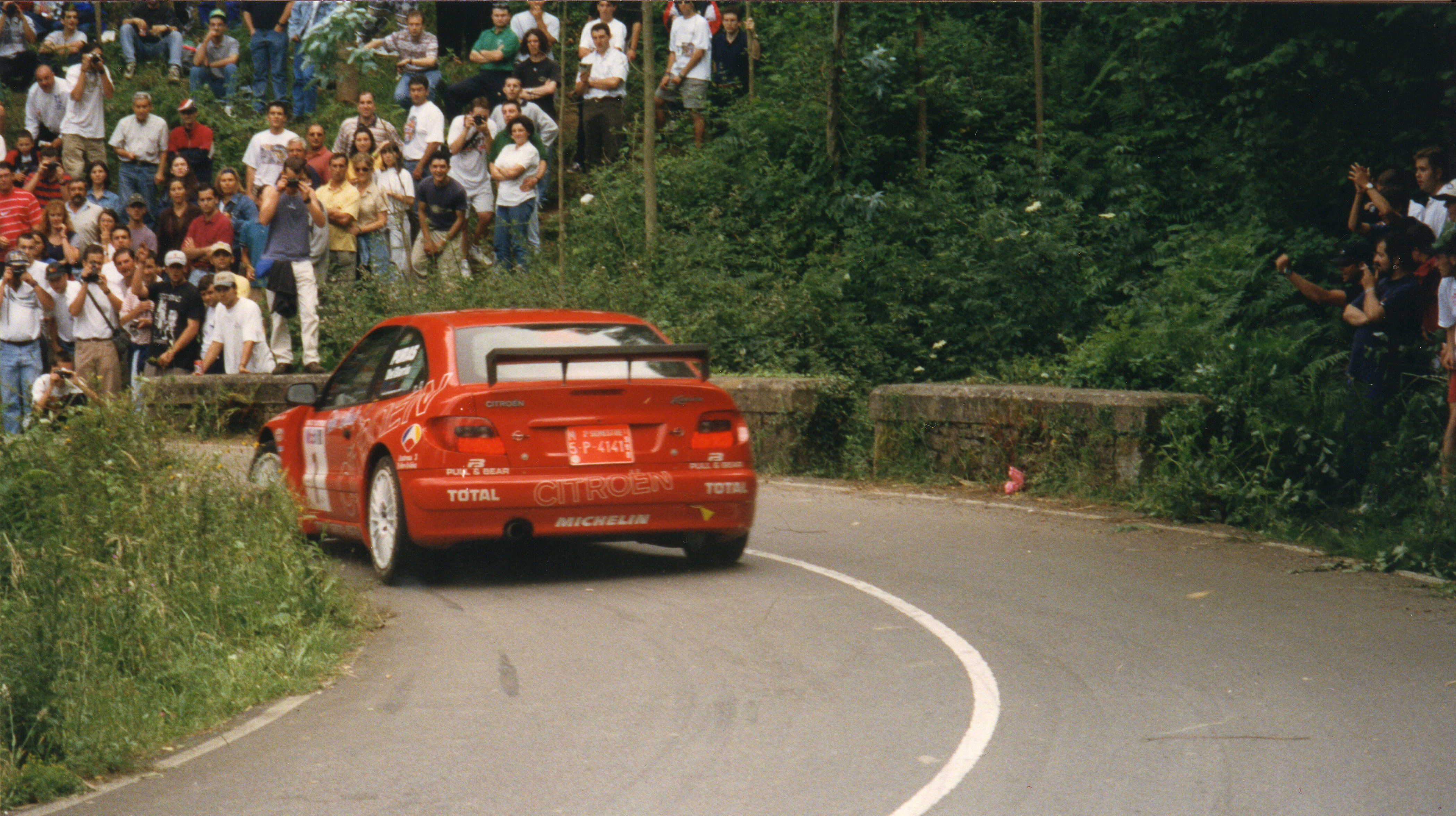 Jesús Puras driving a Citroën Xsara Kit Car at the 1998 Rallye de Avilés.